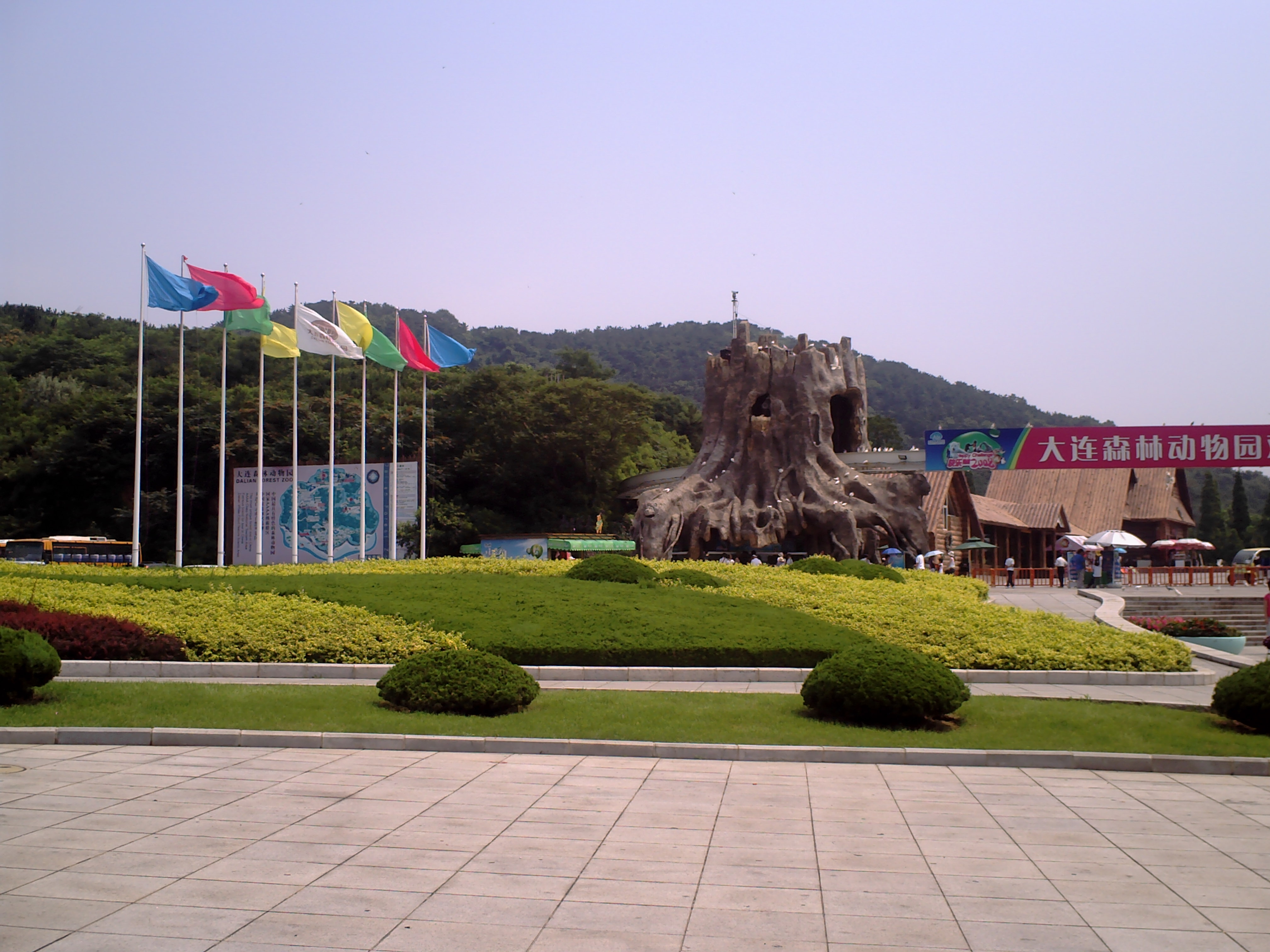 Dalian Zoo